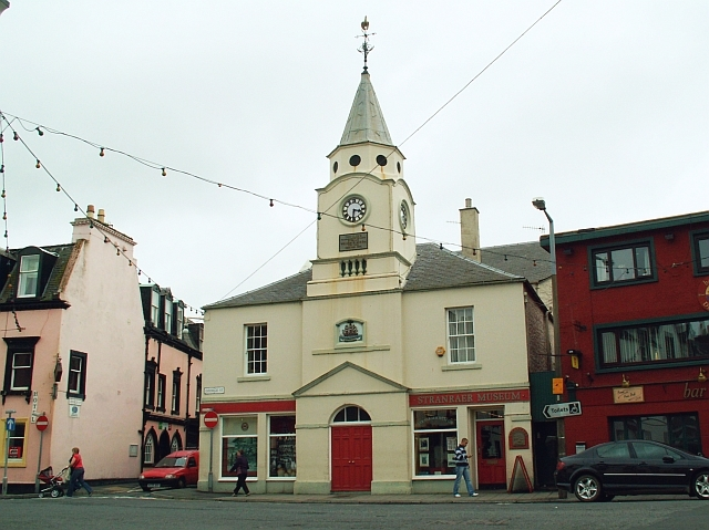 Stranraer Museum The museum occupies the Old Town Hall, built in 1777. On the front of the building is the town coat of arms - a ship.